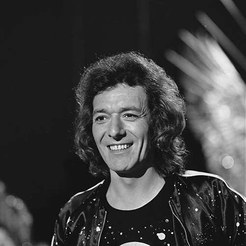 Allan Clarke in AVRO's TopPop (Dutch television show) in 1974